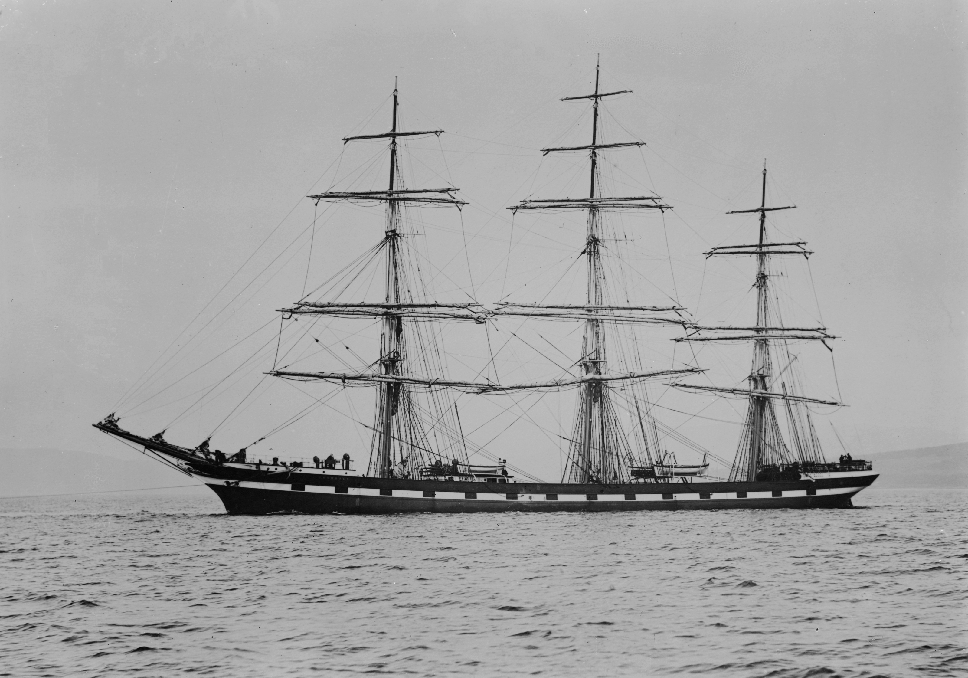 Original caption: “CROMDALE”